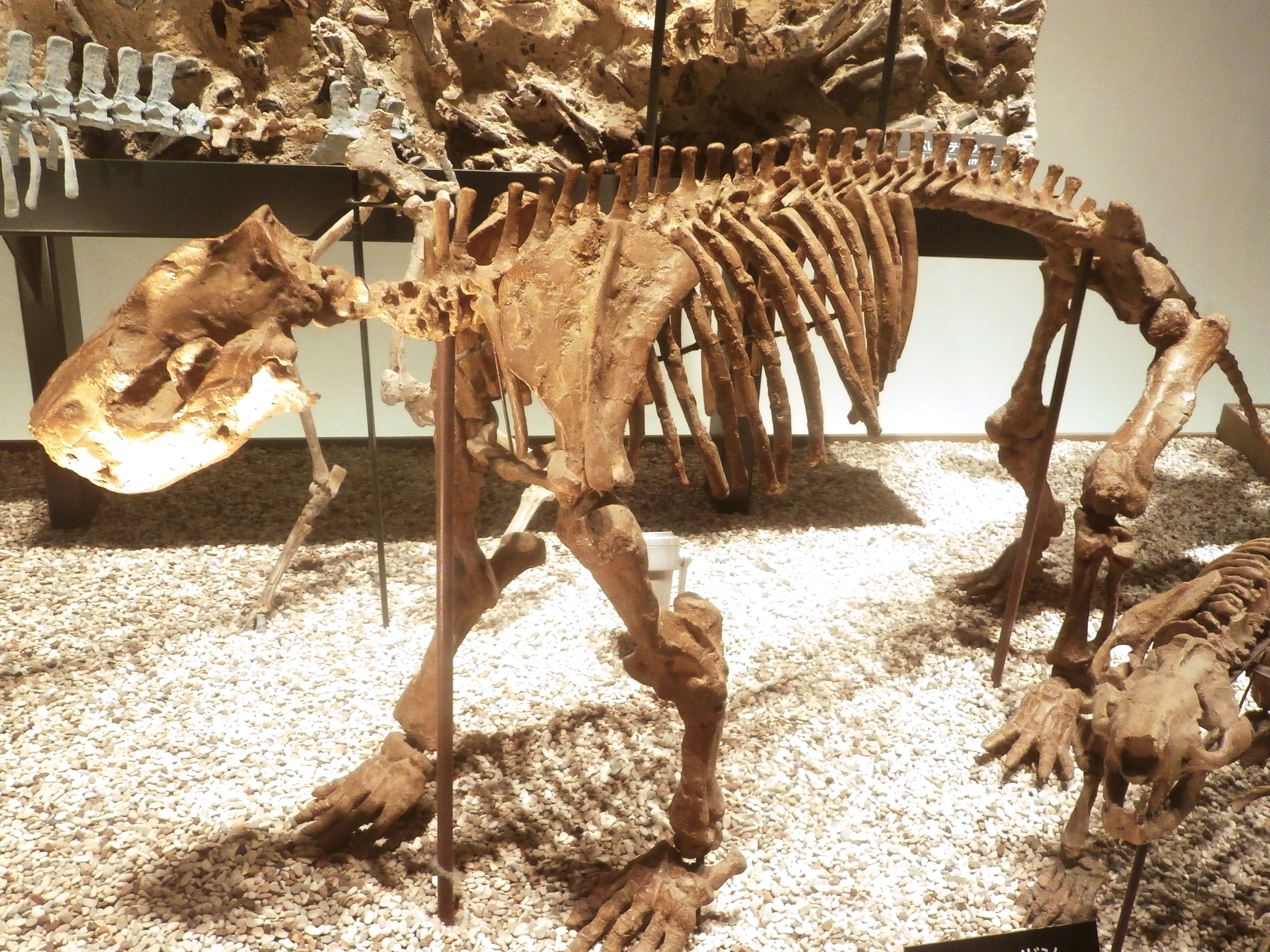 Skeleton of Bemalambda pachyoesteus. Exhibit in the National Museum of Nature and Science, Tokyo, Japan.